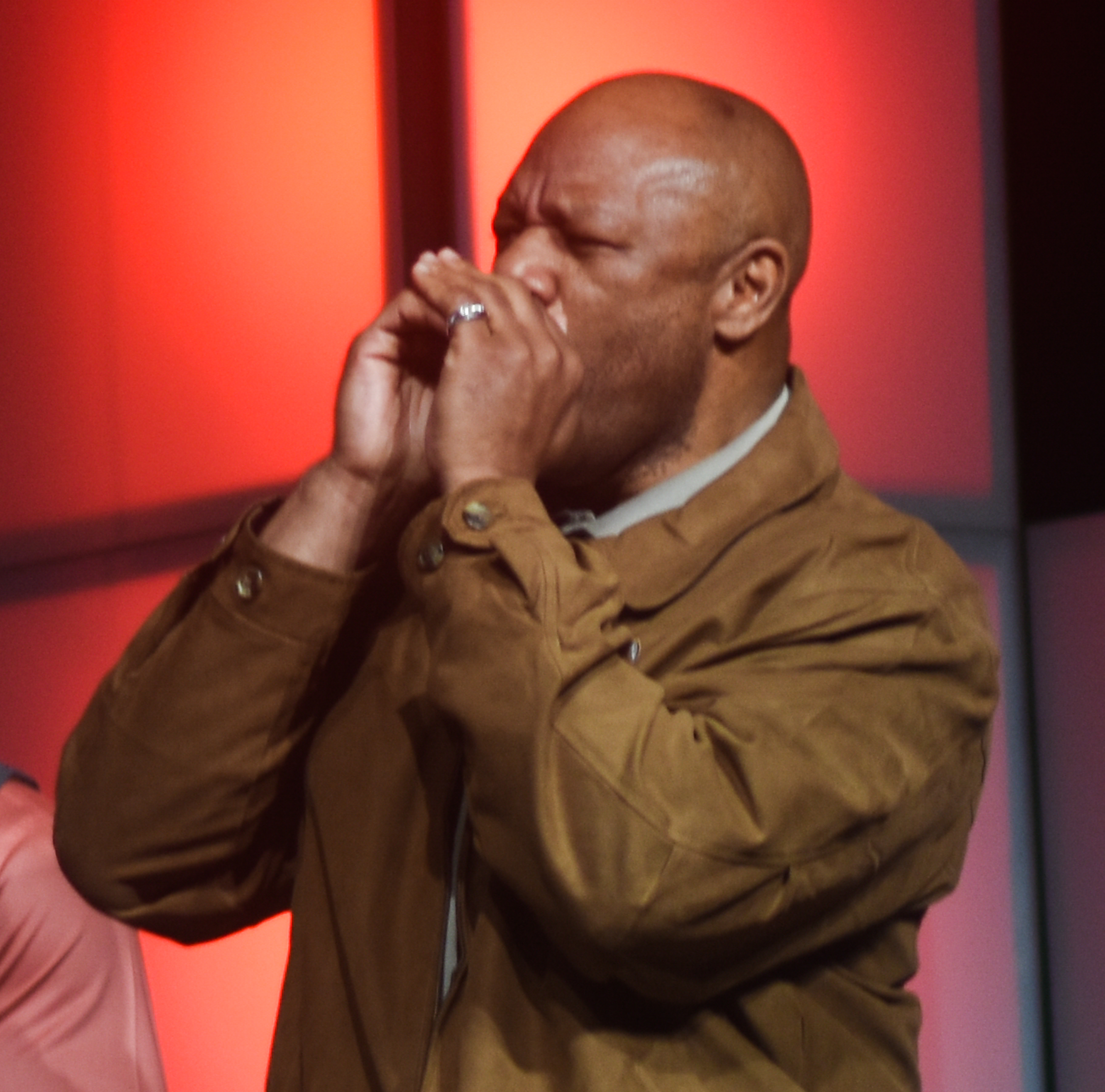 Cleveland Browns New Uniform Unveiling